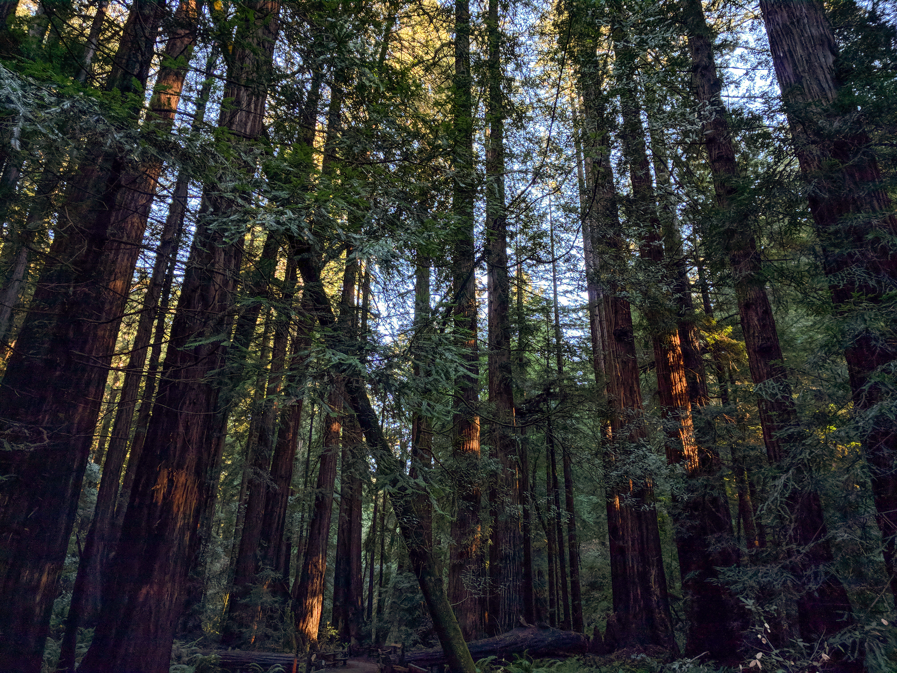 Muir Woods National Monument is part of California’s Golden Gate National Recreation Area, north of San Francisco. It’s known for its towering old-growth redwood trees. Trails wind among the trees to Cathedral Grove and Bohemian Grove, and along Redwood Creek. The Ben Johnson and Dipsea trails climb a hillside for views of the treetops, the Pacific Ocean and Mount Tamalpais in adjacent Mount Tamalpais State Park.